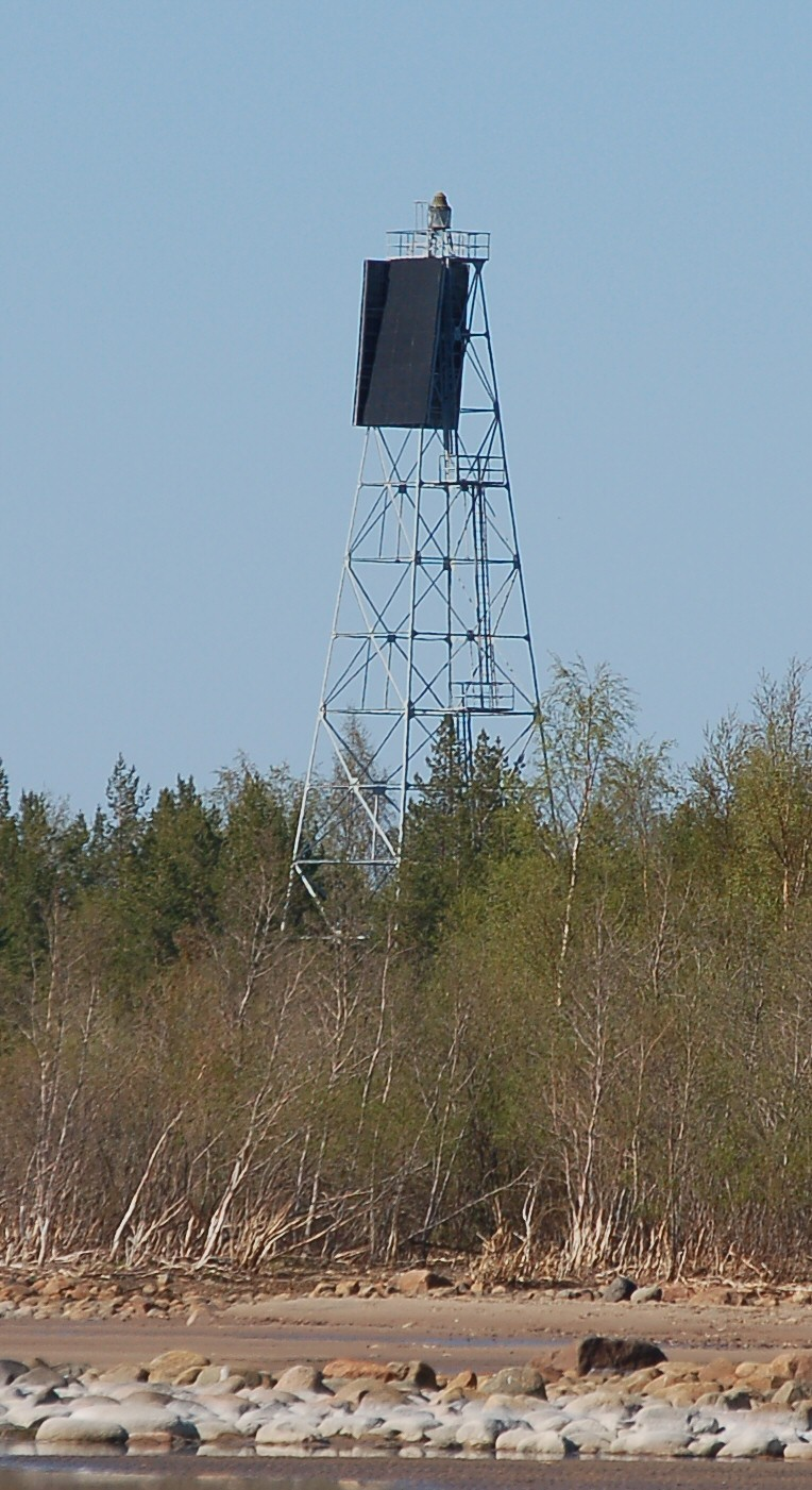 Tauvo light in Haikarannokka, Siikajoki, Finland.